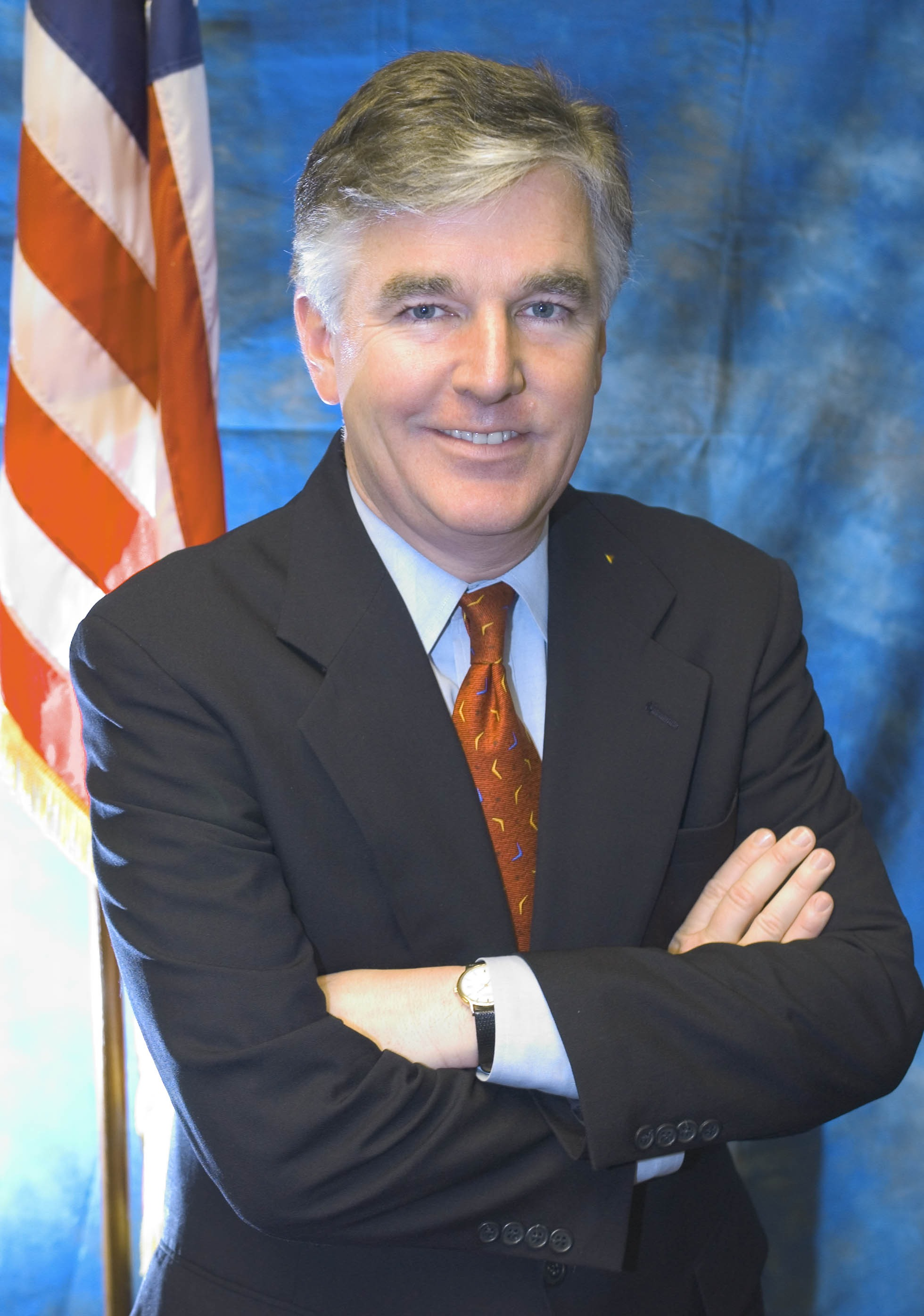 Marty Meehan, U.S. Congressman (D-Massachusetts, 1993-present)